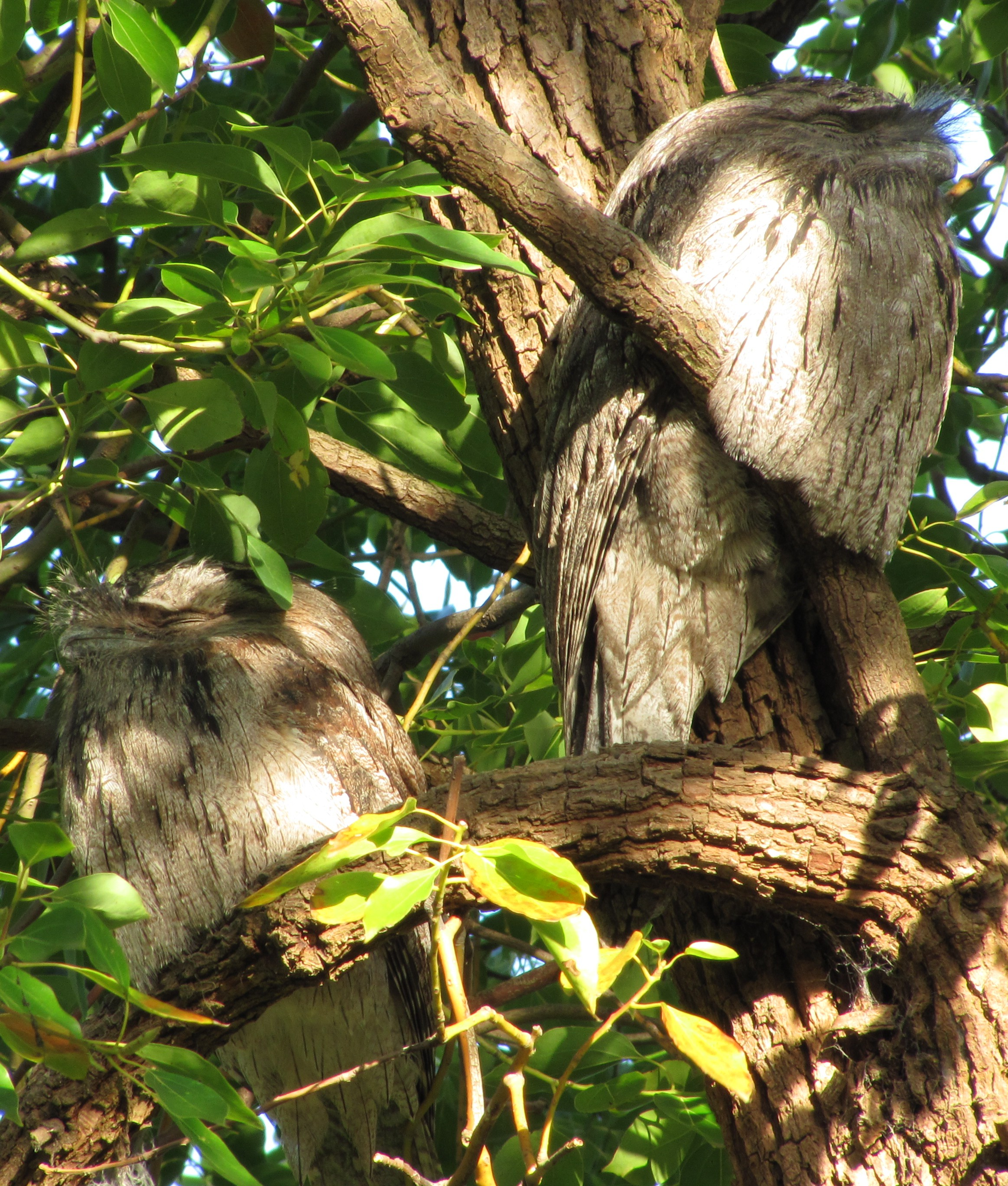 Two Tawny Frogmouth birds sleeping in a tree in Melbourne, Australia, in the afternoon just before sunset.